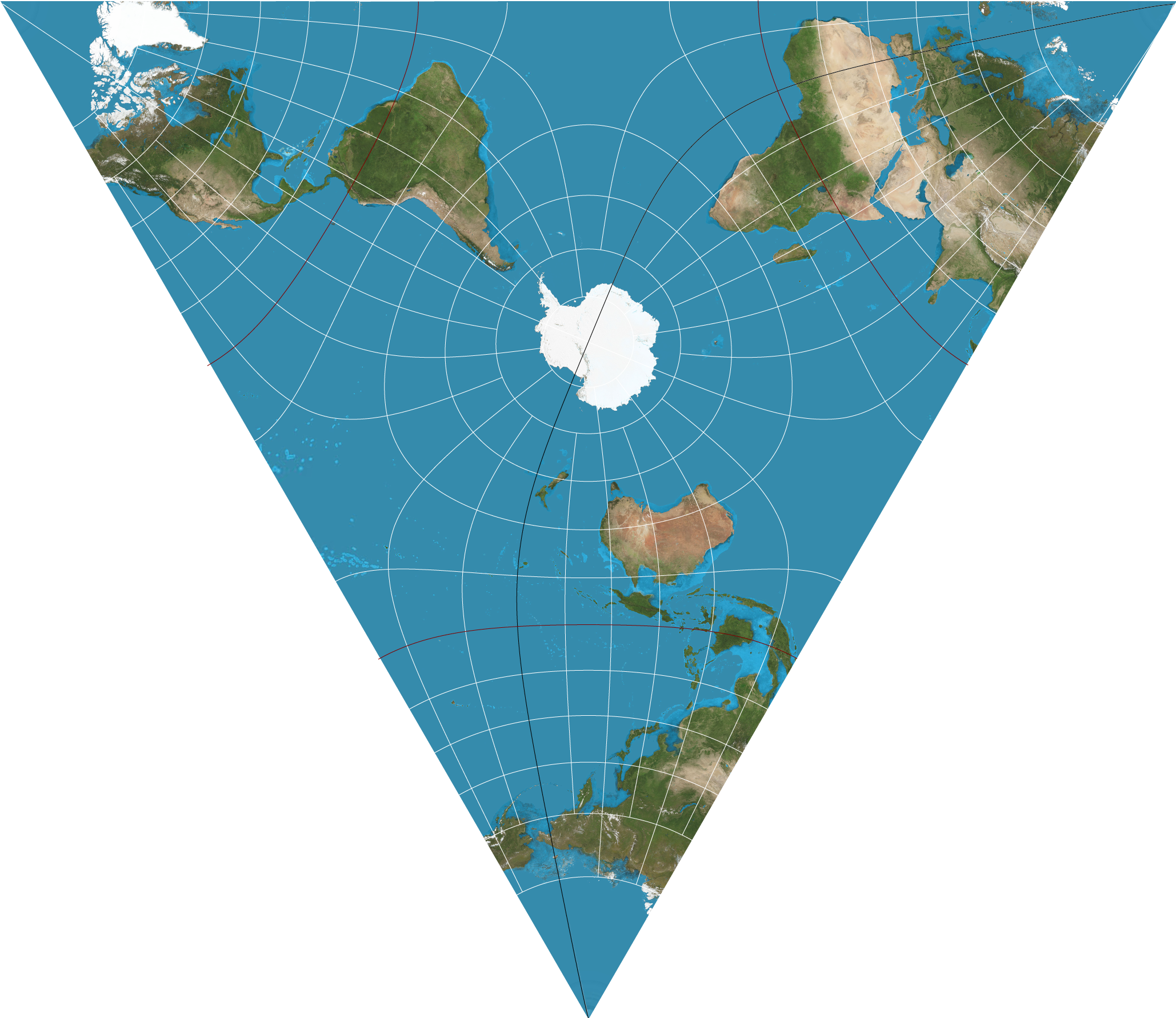 The world on Lee Tetrahedral projection, with central meridian of 22.5°W. 15° graticule. Imagery courtesy NASA’s Earth Observatory, with modifications by Mapthematics LLC.